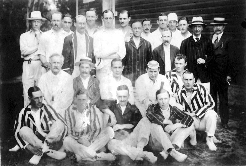 Members of the Buenos Aires C.C. and Rosario C.C. cricket teams posing together during a match between both teams.